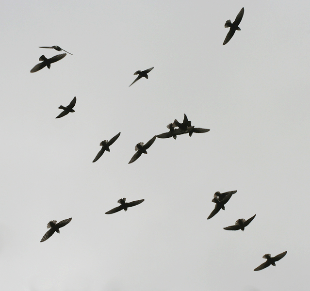 House Swift Apus affinis in Hyderabad , India.